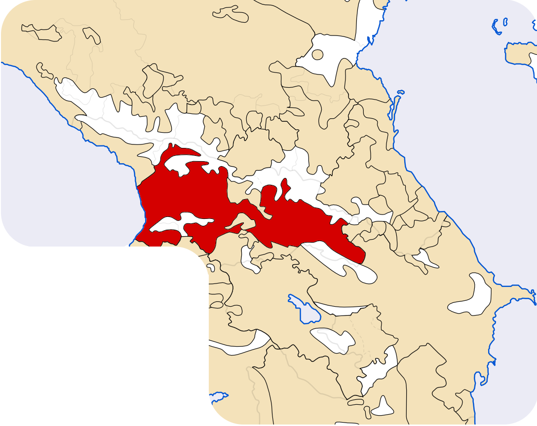 Location map of the Georgian people.